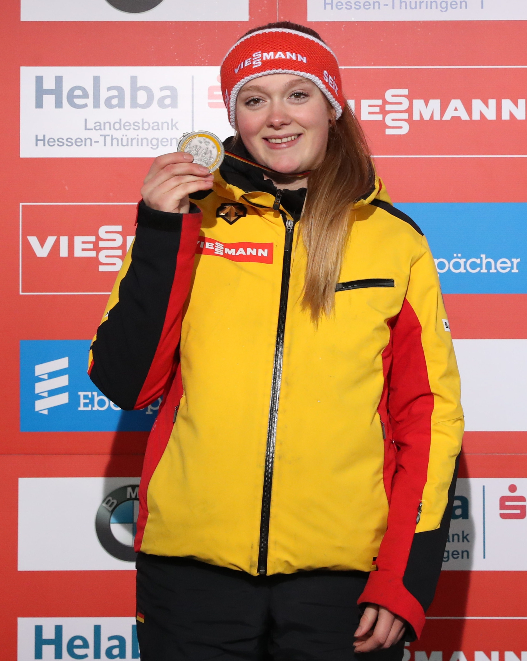 Victory Ceremonies (Women's and Team Relay) at Saturday at the 2019/20 Oberhof Luge World Cup